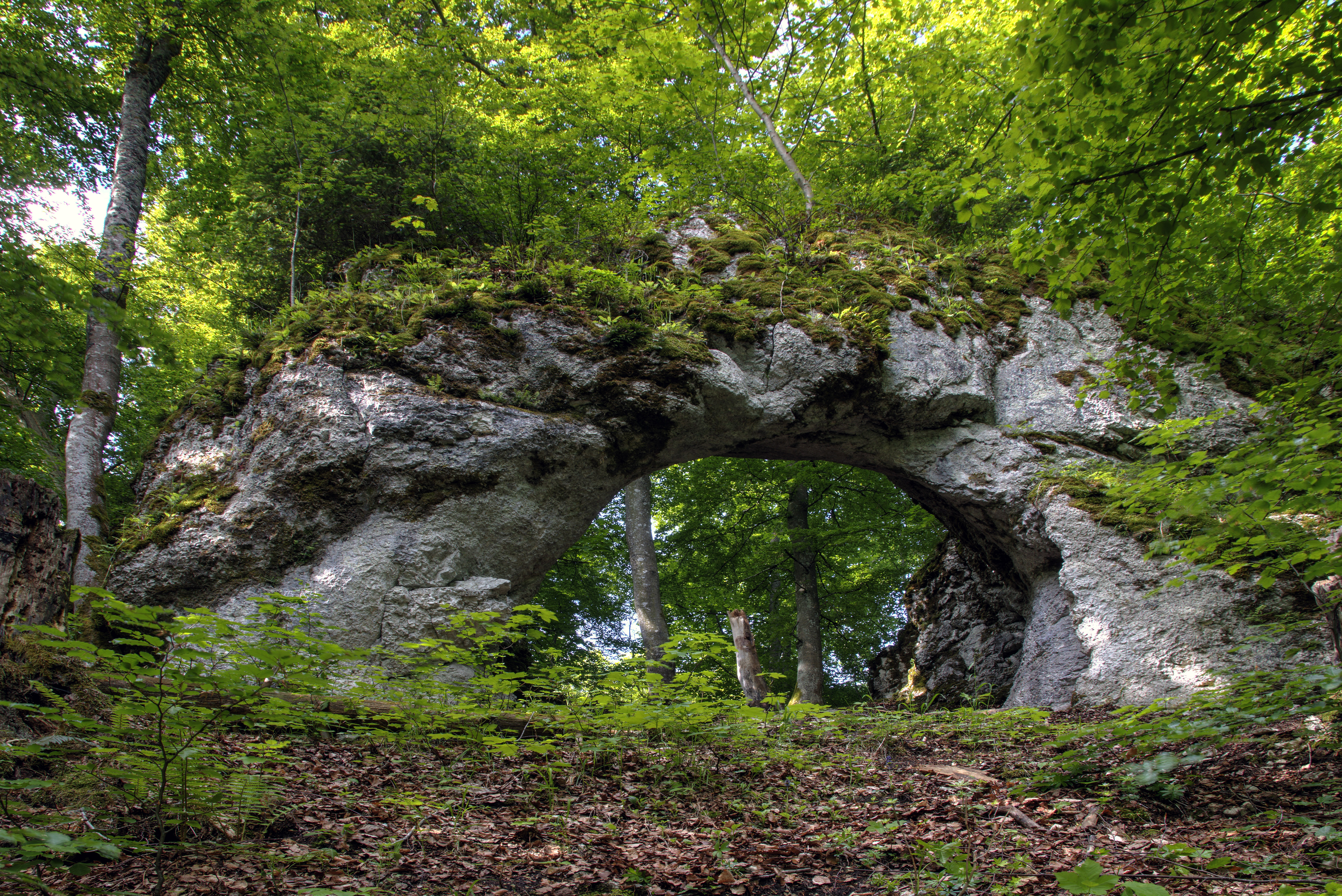 Heidentor near Egesheim from below. Natural arch at the Großer Heuberg plateau, near Tuttlingen, Baden-Württemberg, Germany. It is a natural monument. HDR made of 7 images.